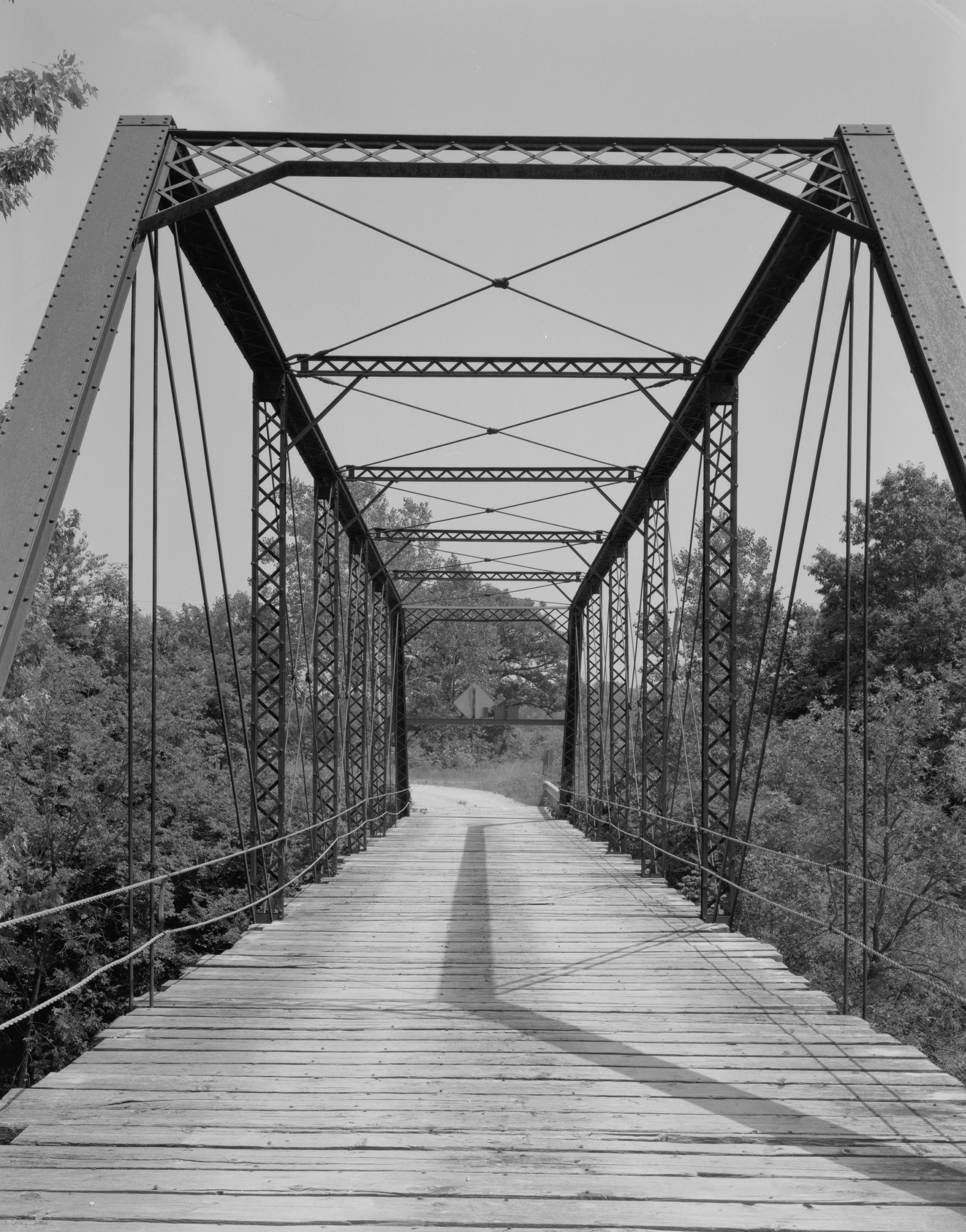 Northwestern side of the Grand River Bridge, which carries a county road over the Grand River west of Leon in Decatur County, Iowa, United States. Built in 1885, the pinned Pratt through truss bridge is listed on the National Register of Historic Places.